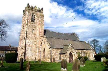 Bolton-on-Swale, St Marys Church